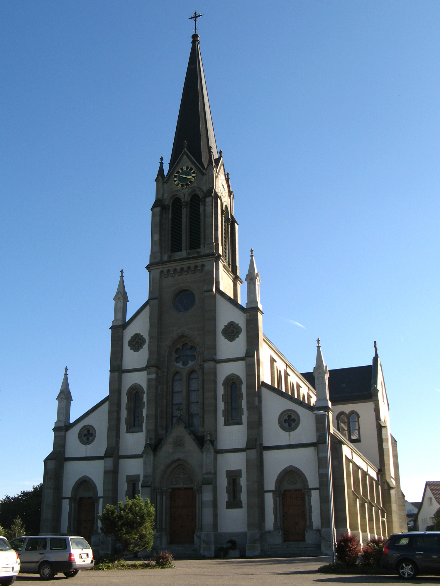 Front view of St Pancras parish church in Boswil